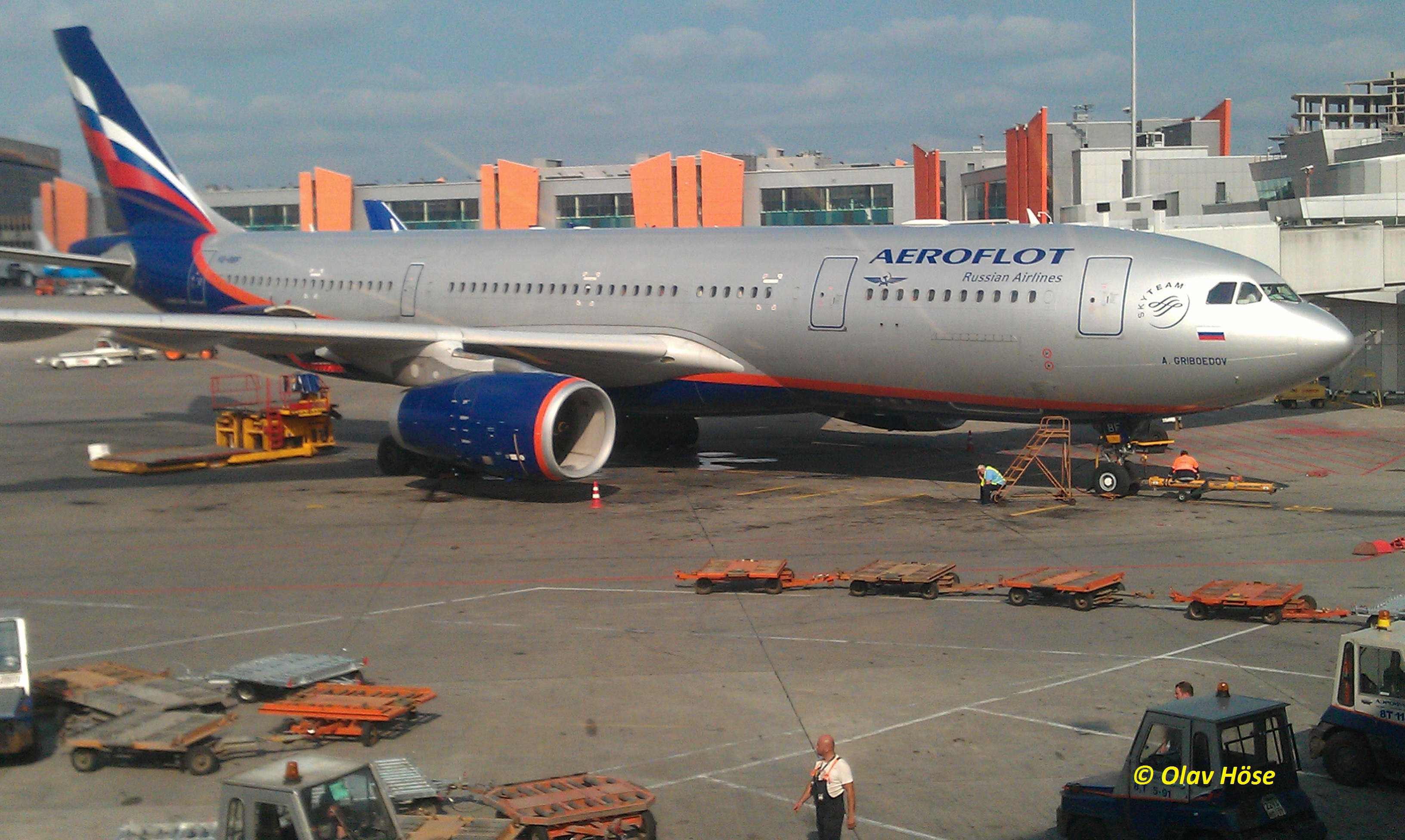 An Airbus A330 from Aeroflot in Moscow under june 2012